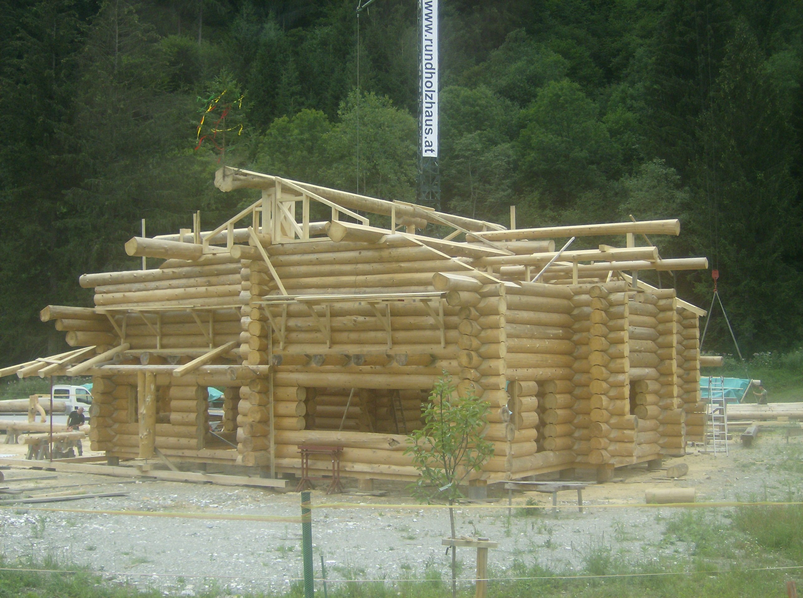 A log cabin under construction nearby Spittal an der Drau (Austria).